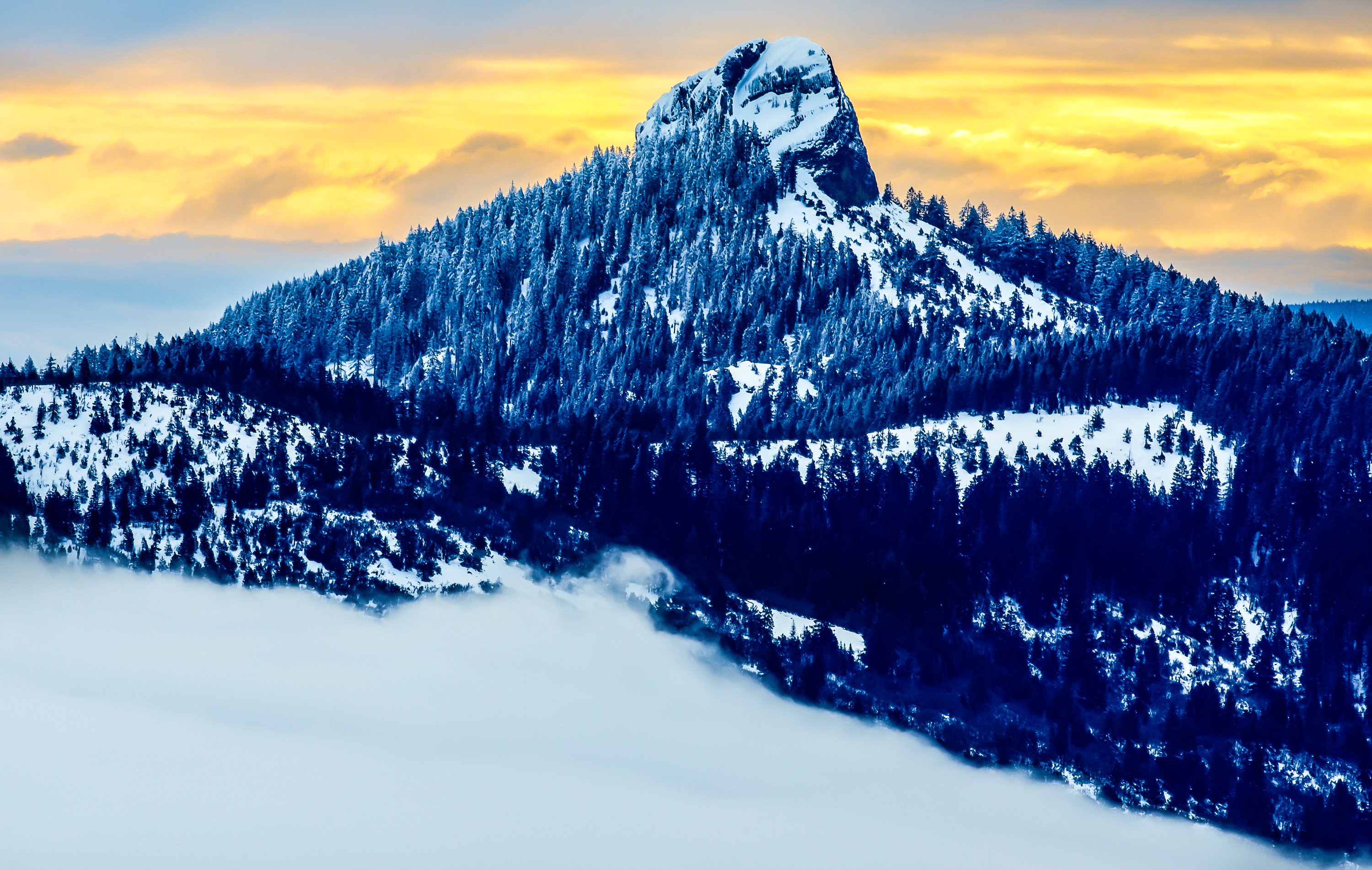 Snowshoeing to Pilot Rock, one of the most prominent features of the Cascade-Siskiyou National Monument in the southern Cascade Range, March 9, 2019. BLM photos: Bob Wick Pilot Rock rises to an elevation of 5,910 feet and is visible from northern California as well as parts of the Rogue Valley. The volcanic plug mountain, a geologic description for what is left after a volcano erodes away, resides within the Soda Mountain Wilderness. The base of Pilot Rock can be reached via a moderate hiking trail that climbs through meadows and old growth forest, said Wick, a wilderness specialist for the BLM who captured these recent photos. “Scrambling to the top of Pilot Rock is much more difficult and going with someone who has scaled the rock before is recommended,” said Wick.